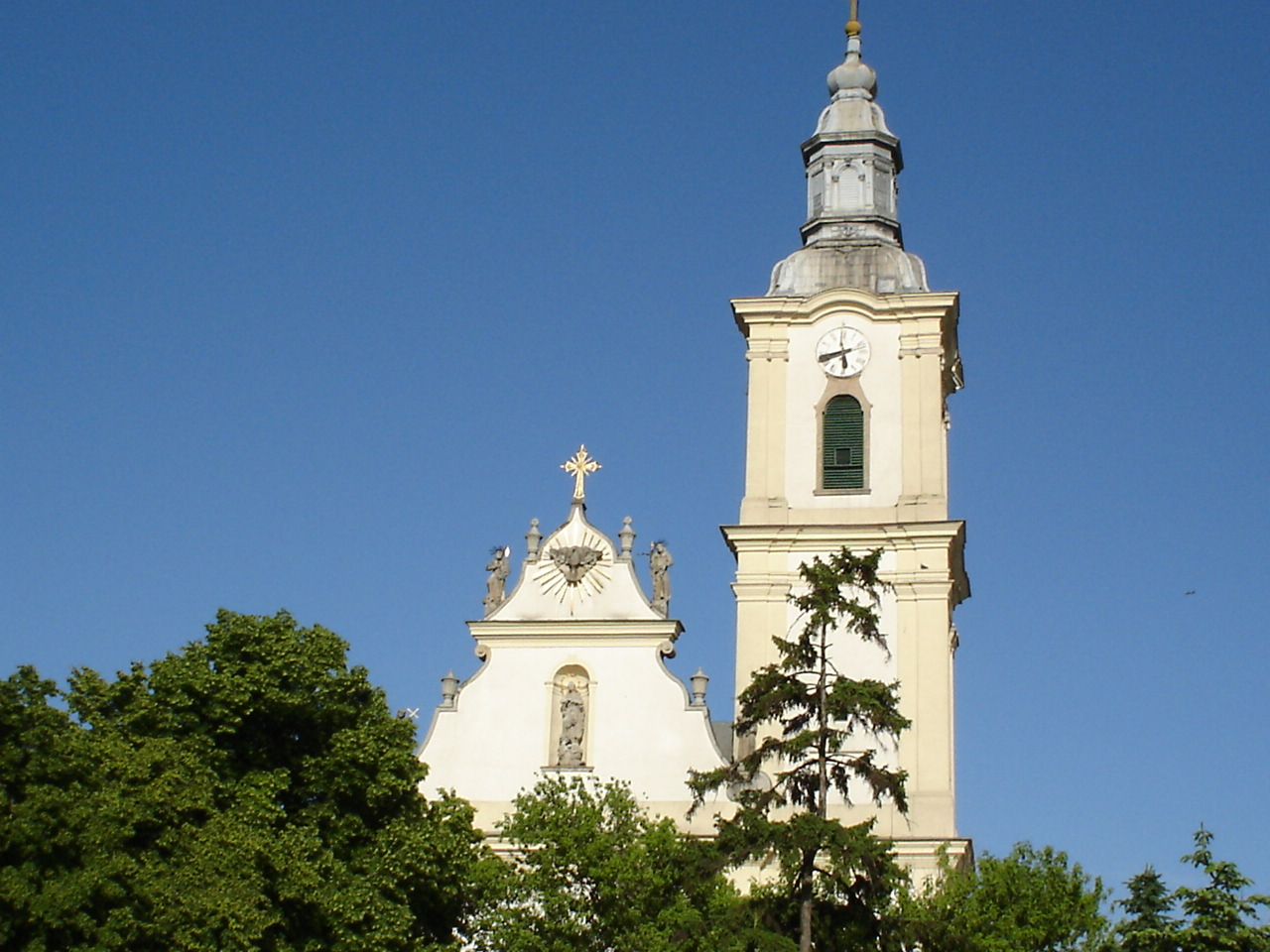 Barátok church in Gyöngyös, Hungary